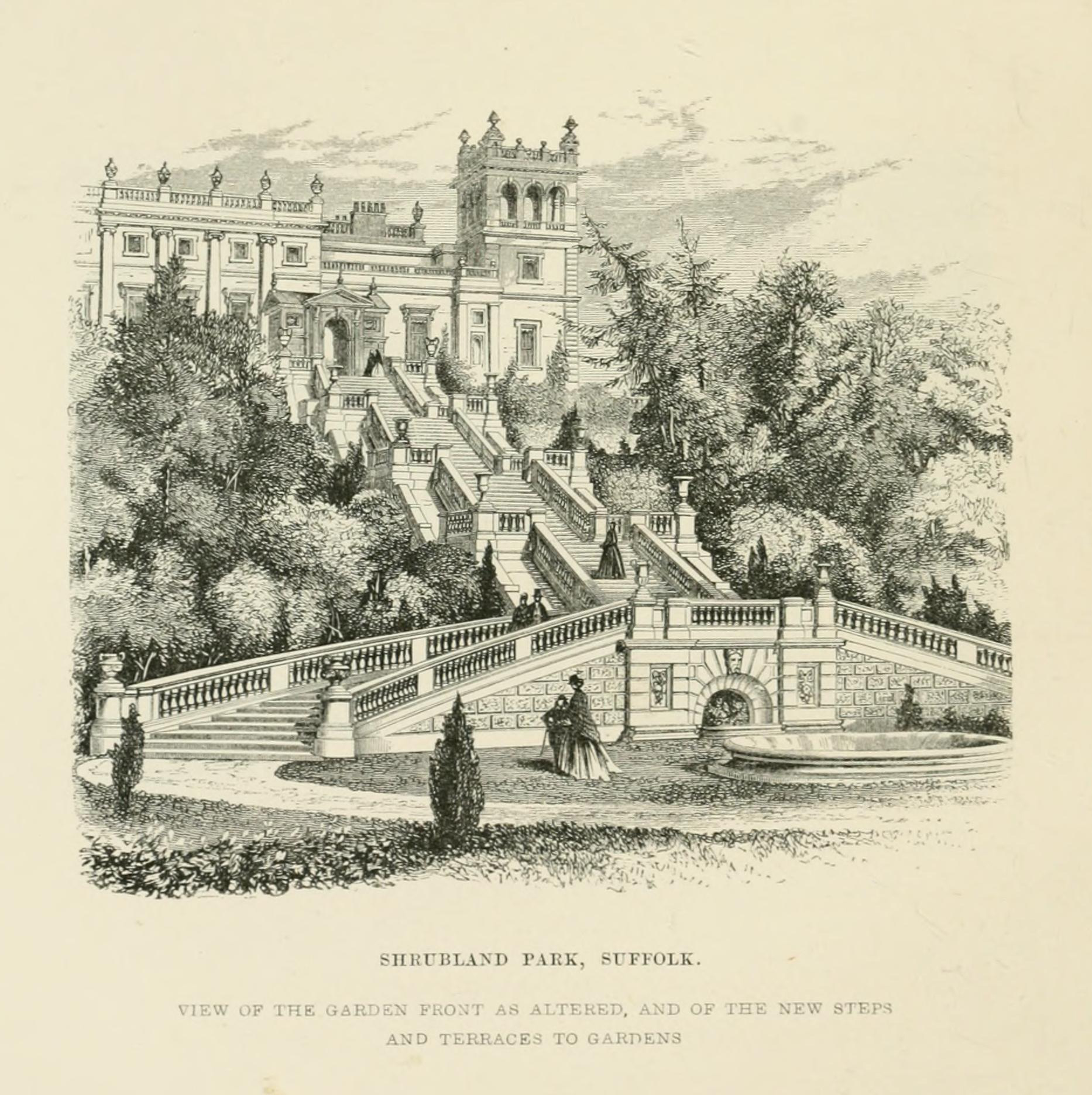 Shrubland park, Suffolk